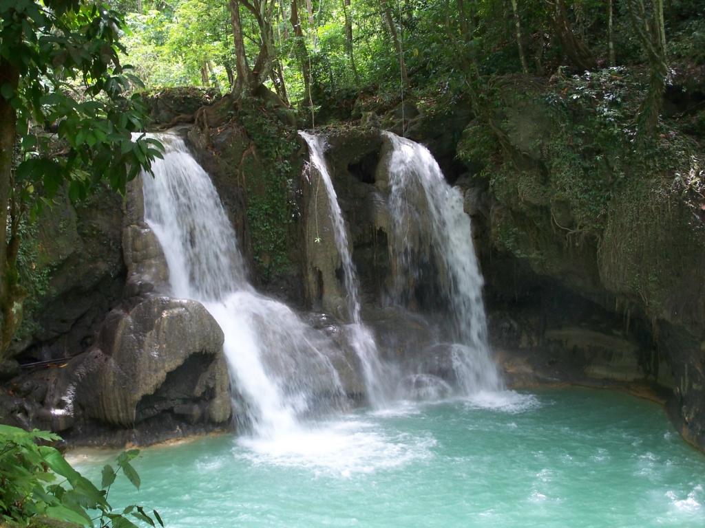 Mag-aso falls at Antequera, Bohol/Philippines